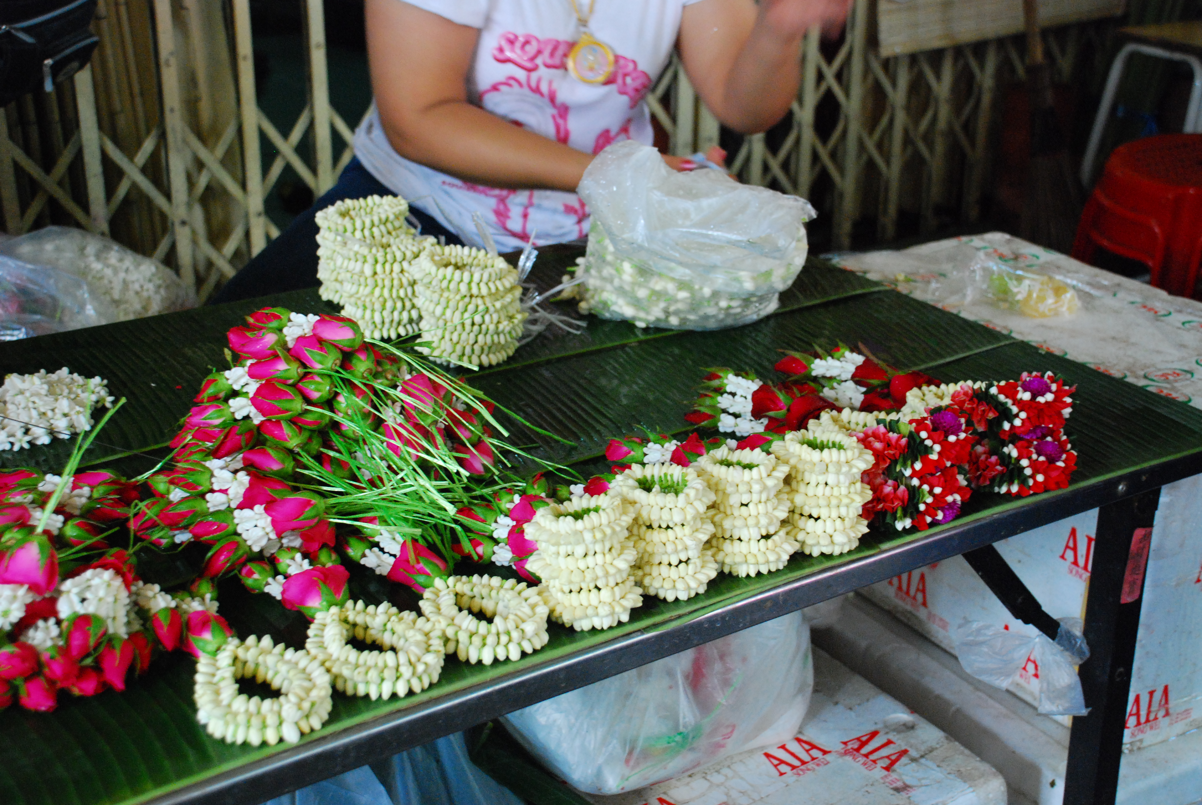 Phuang malai garlands being constructed in Pak Khlong Talat flower market, Bangkok